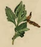 Stainton’s Natural History of the Tineina (1855–1873): Coleophora chamaedriella sprig of Teucrium chamaedrys with a larval case attached to one of the leaves